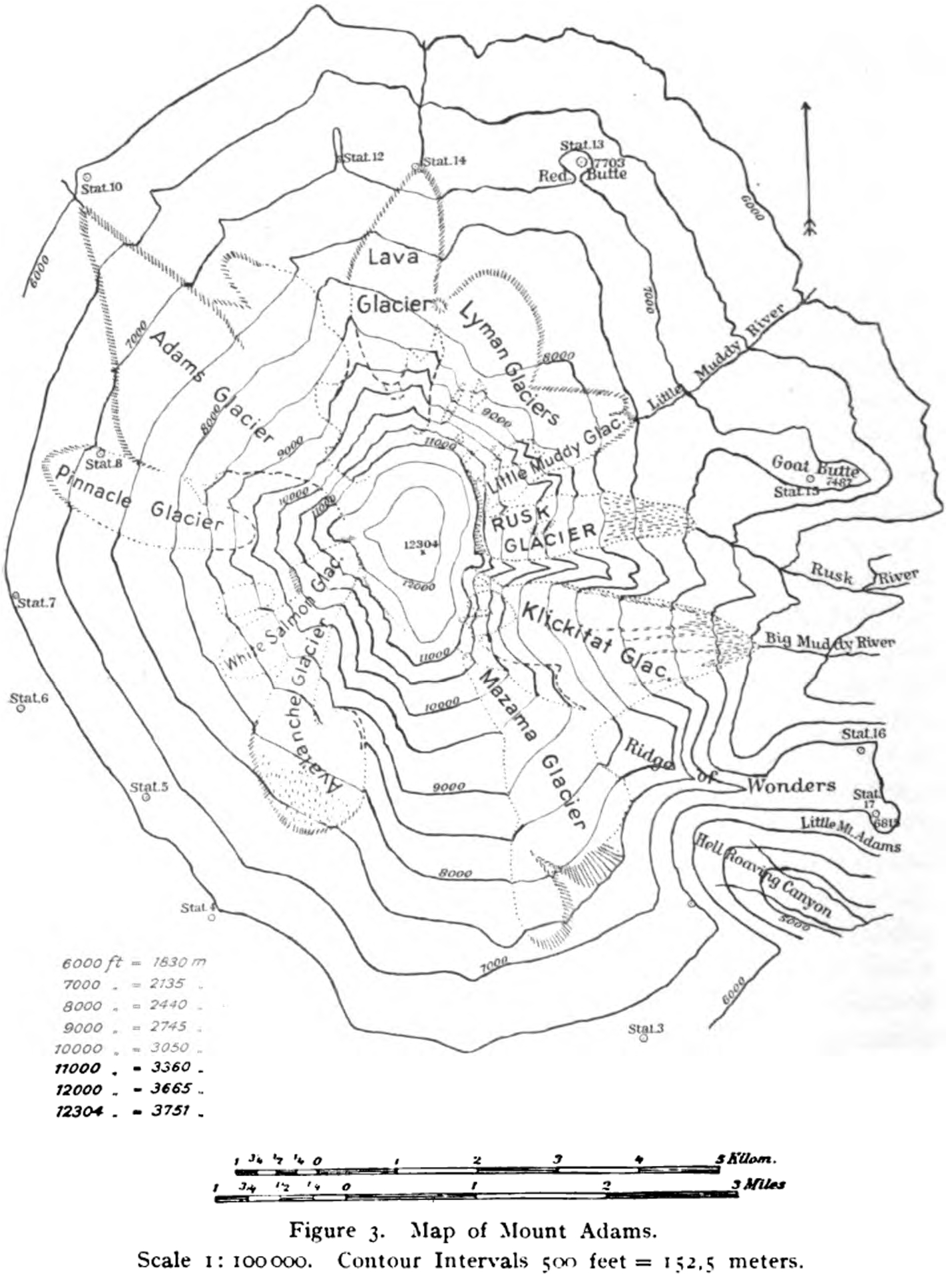 Map of the 1901 survey of Mount Adams (Washington) with details of the glaciers drawn by Harry Fielding Reid.